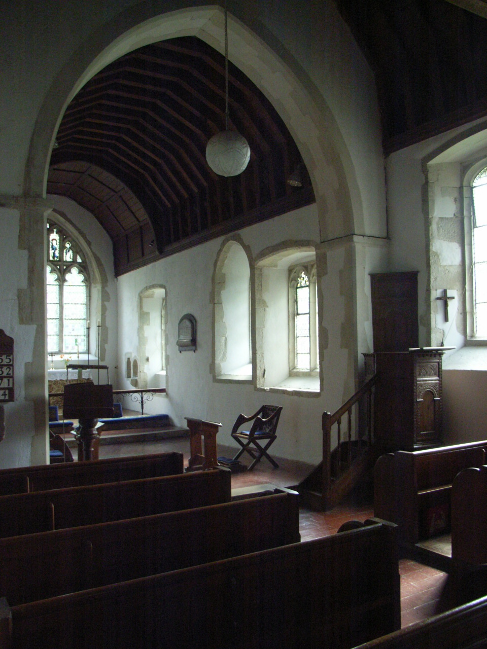 Interior of St Giles church Interior view of St Giles church. The pulpit on the far right is from the Tudor period. The window at the far end of the chancel is of stained glass. The ceiling arches are Norman or medieval in style.